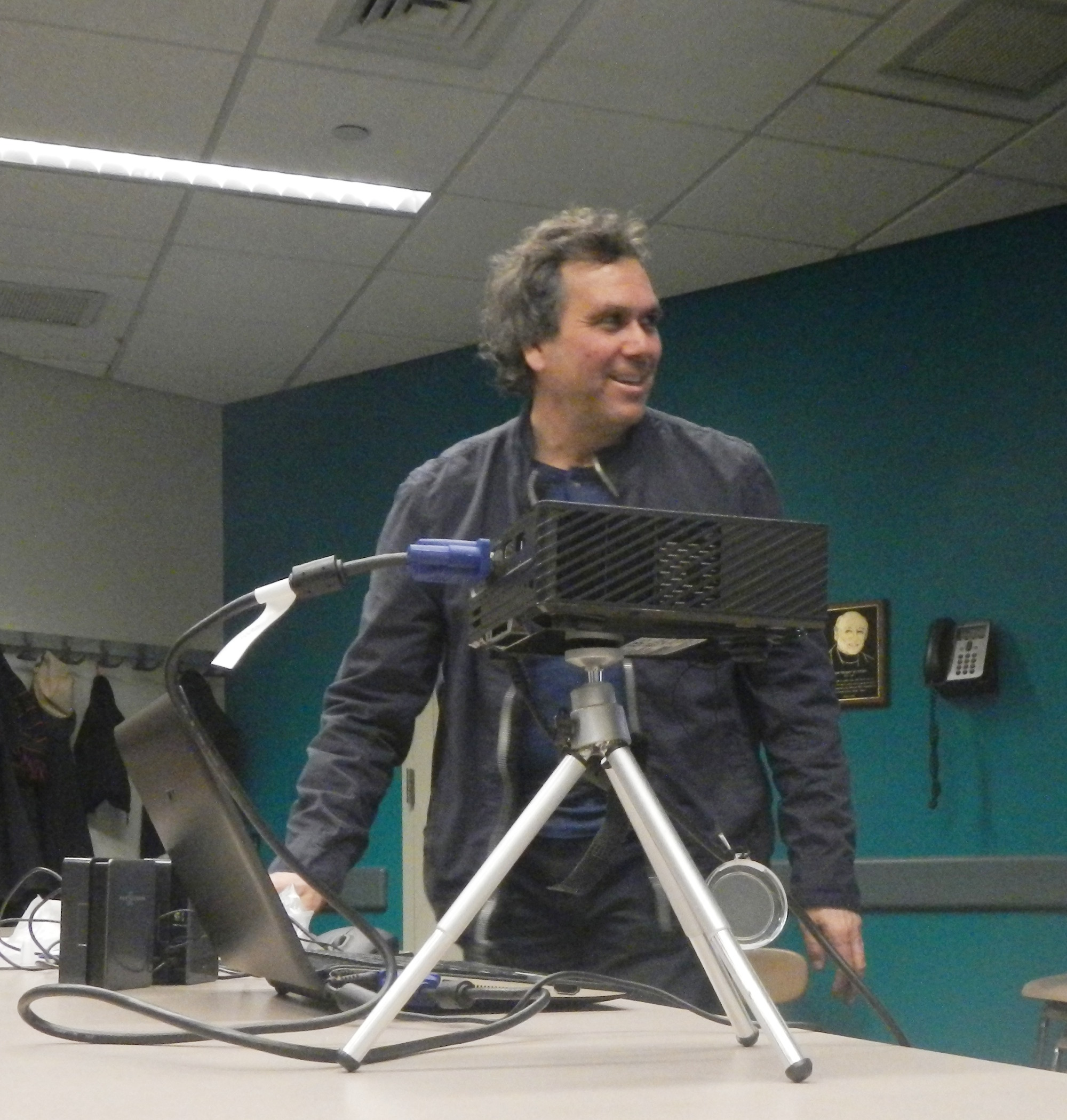 Dr Belbruno lectures to an astronomy club about meteorites being exchanged among planets, enabling panspermia.